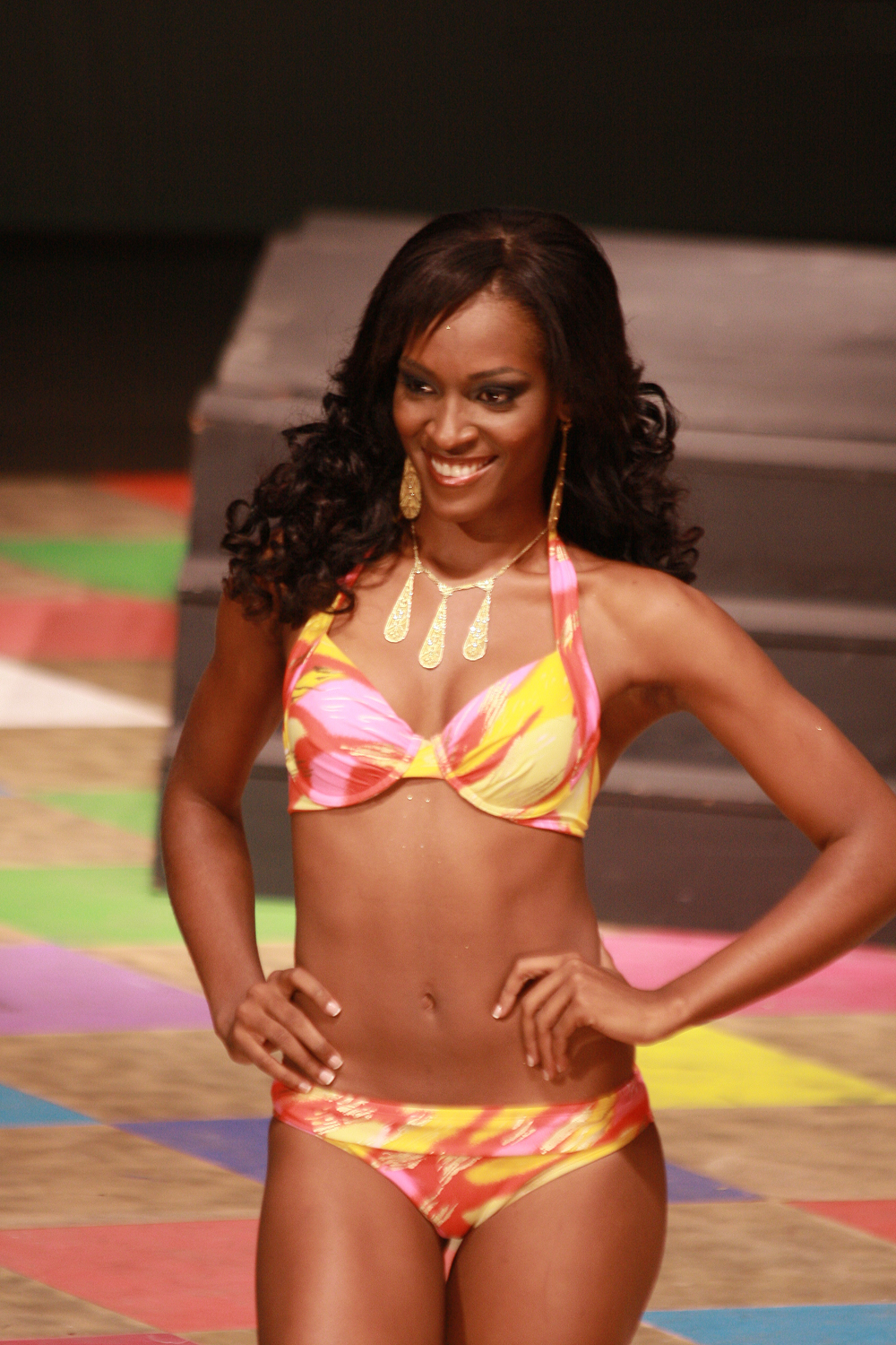 Scarlett Allen Miss Nicaragua 2010